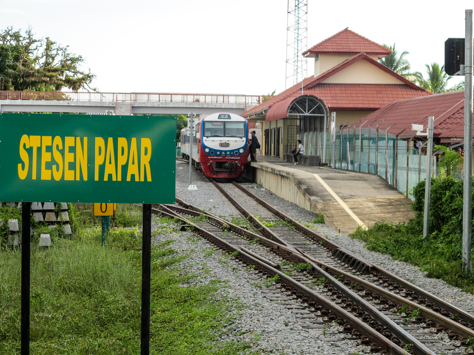 Turntable at Papar Station of the Sabah State Railway